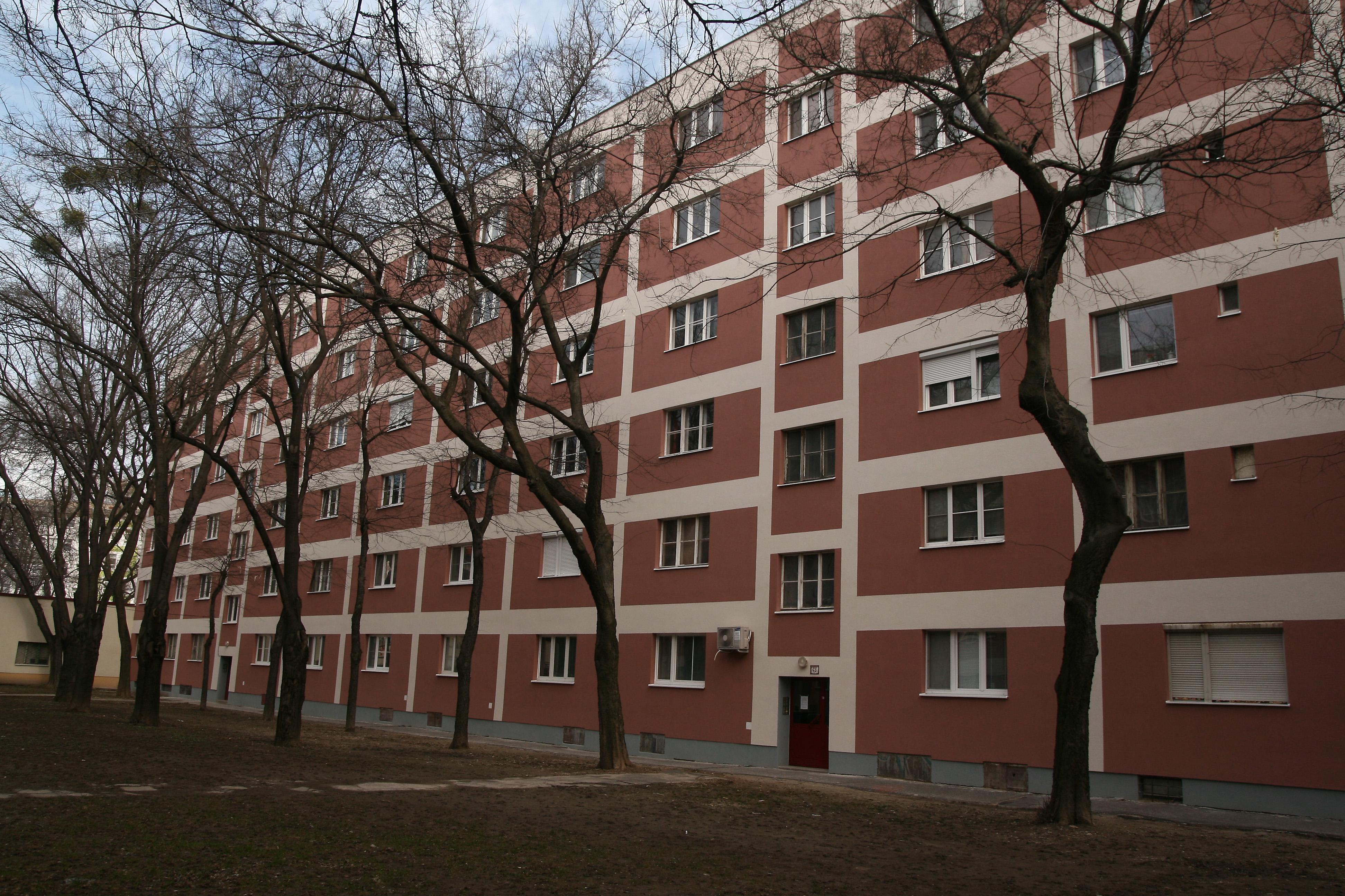 Social housing UNITAS in Bratislava, Slovakia. Constructivist architecture from 1930, architects Friedrich Weinwurm and Ignác Vécsei.